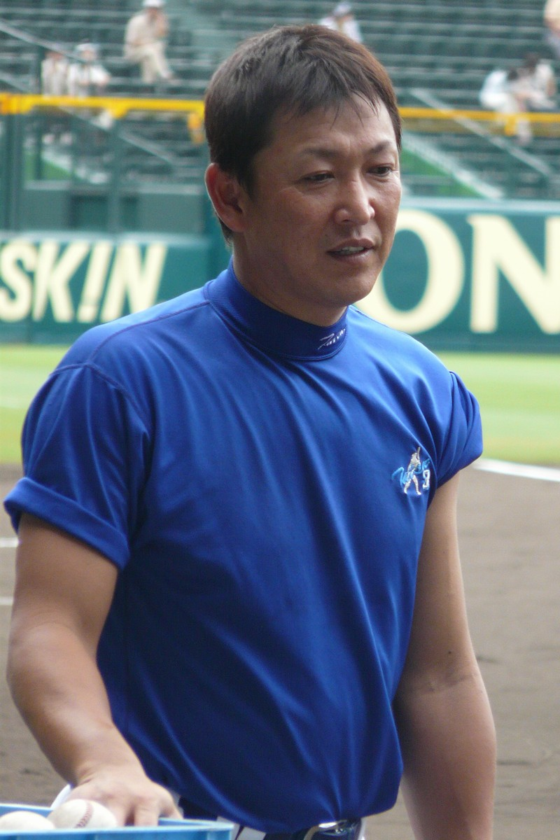 Kazuyoshi Tatsunami, infielder of the Chunichi Dragons, at Hanshin Koshien Stadium.